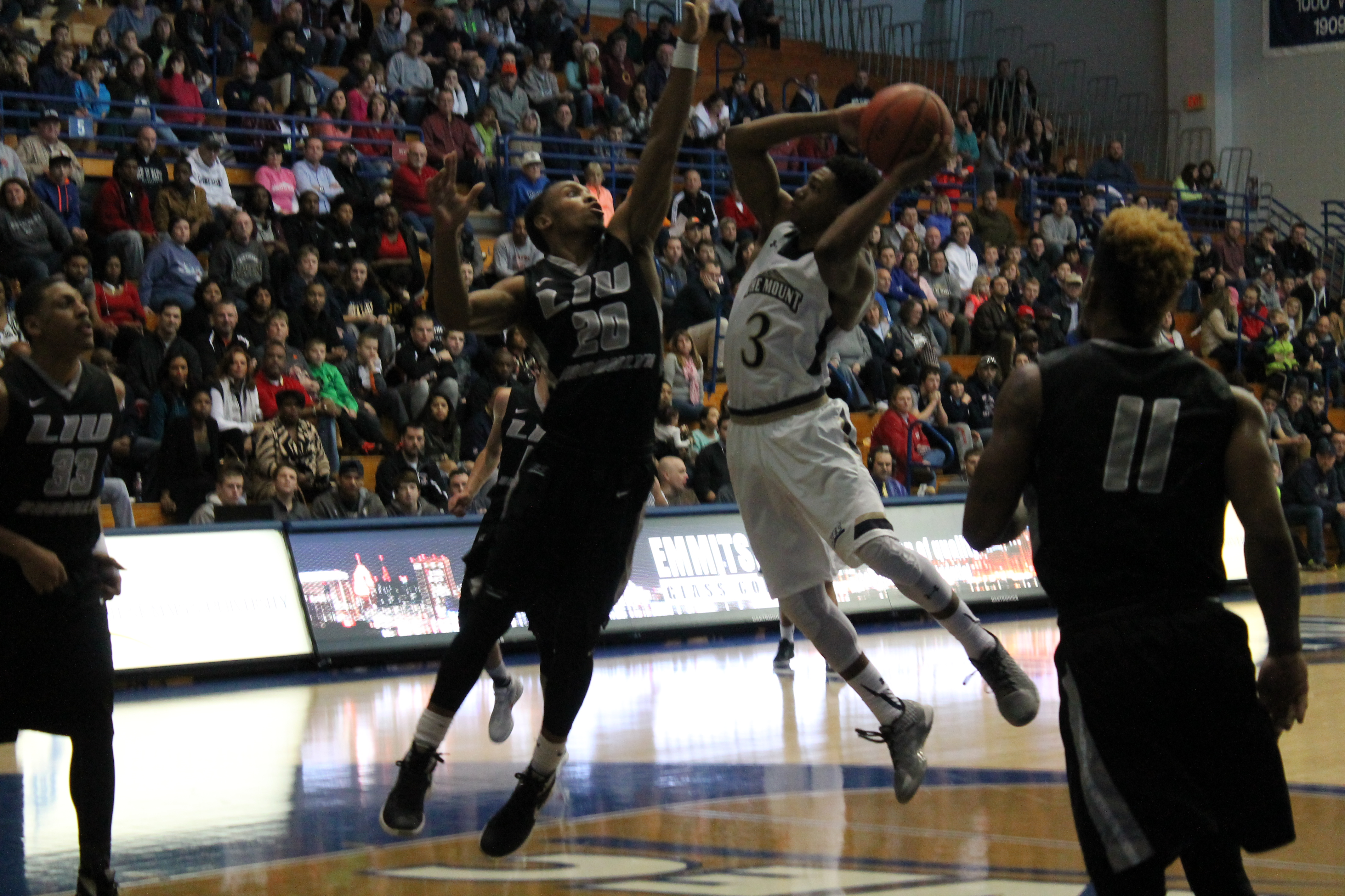 Mount St. Mary's men's basketball player Lamont "Junior" Robinson is defended by LIU-Brooklyn's Aakim Saintil during a Northeast Conference game January 2, 2016 at Knott Arena in Emmitsburg, Maryland.